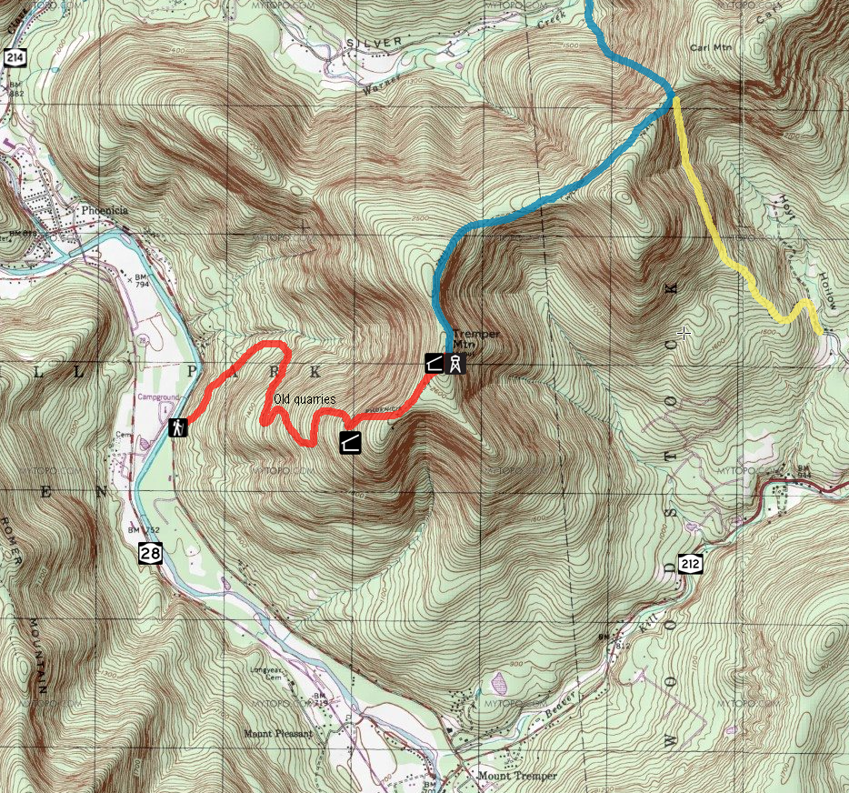 USGS map of Mount Tremper in the Catskill Mountains of the U.S. state of New York, with trails indicated in blaze color and facilities on and near mountain indicated with NY route shields and NPS symbols